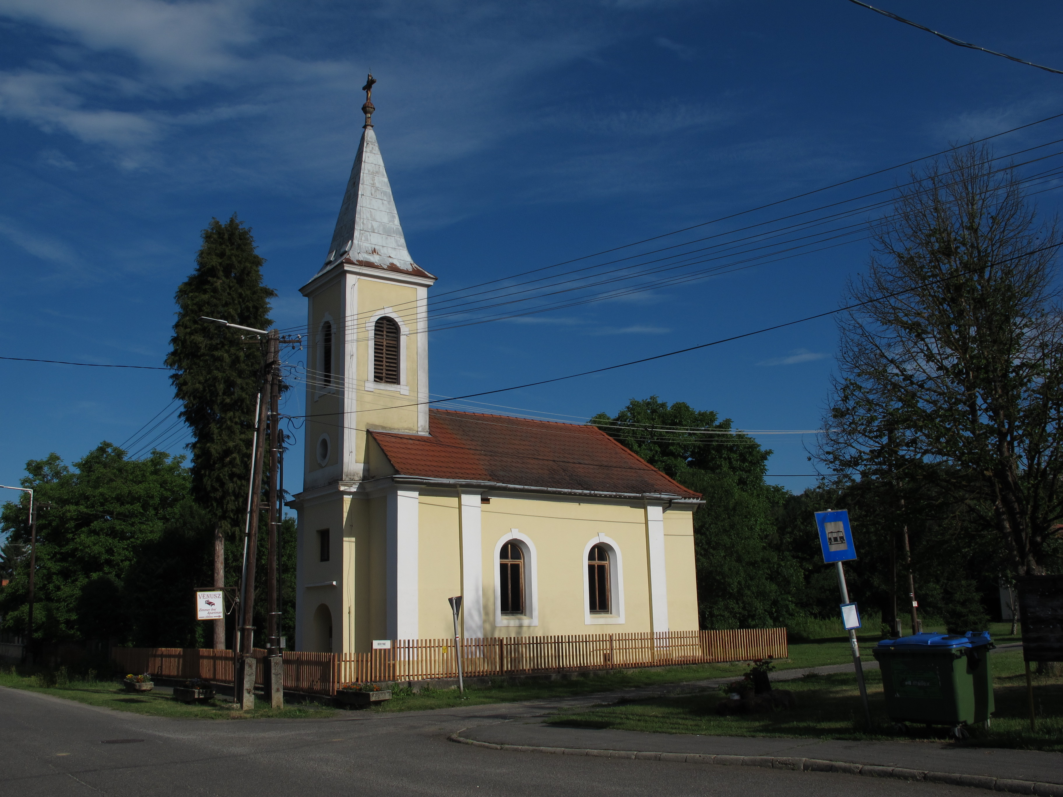 Rábafüzes Szentgotthárd Chapel